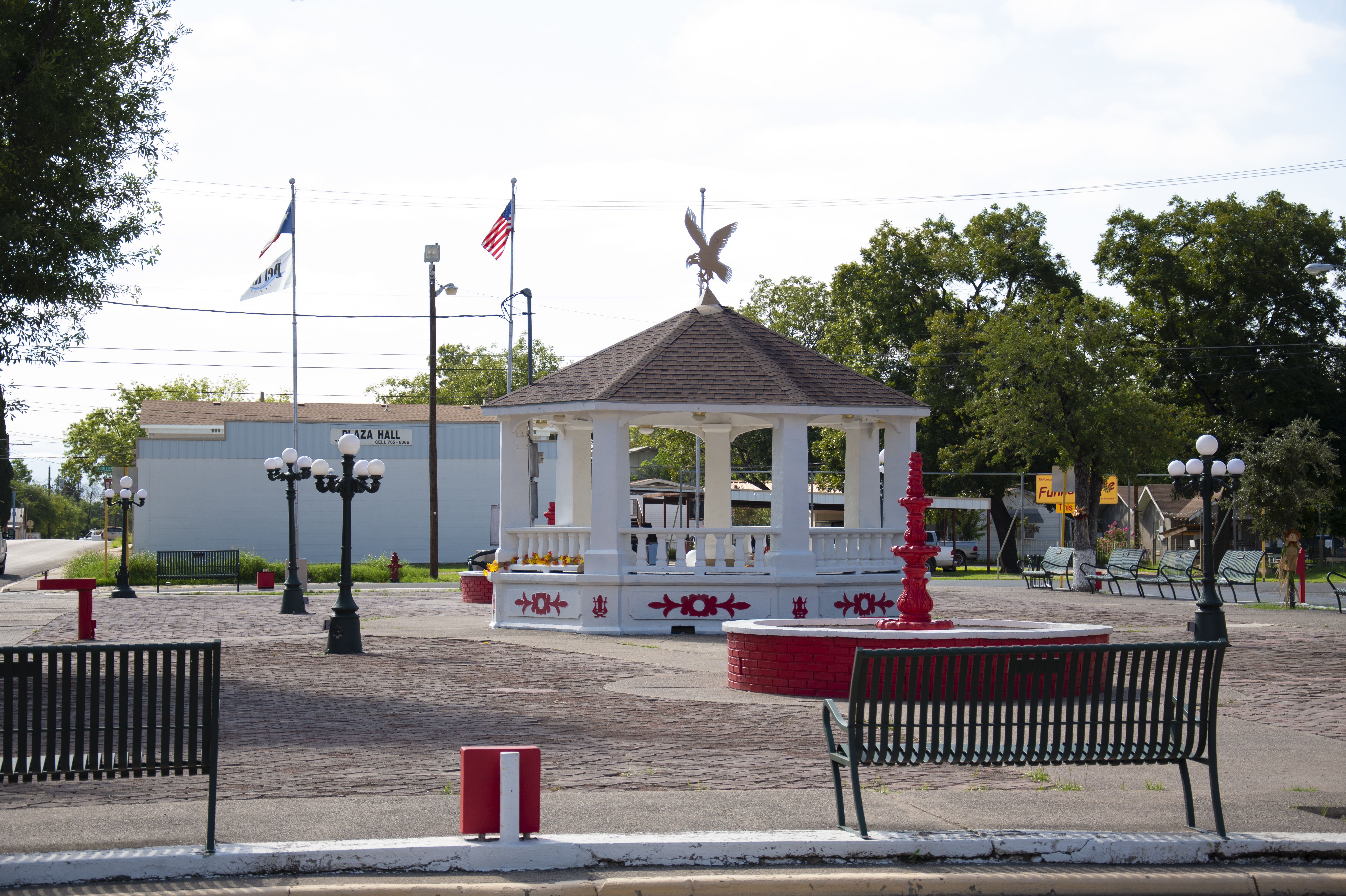 Brown Plaza in Del Rio is named for its donor, George Washington Brown (1836–1918), both a county and district clerk originally from North Carolina. The plaza was restored in 1969.